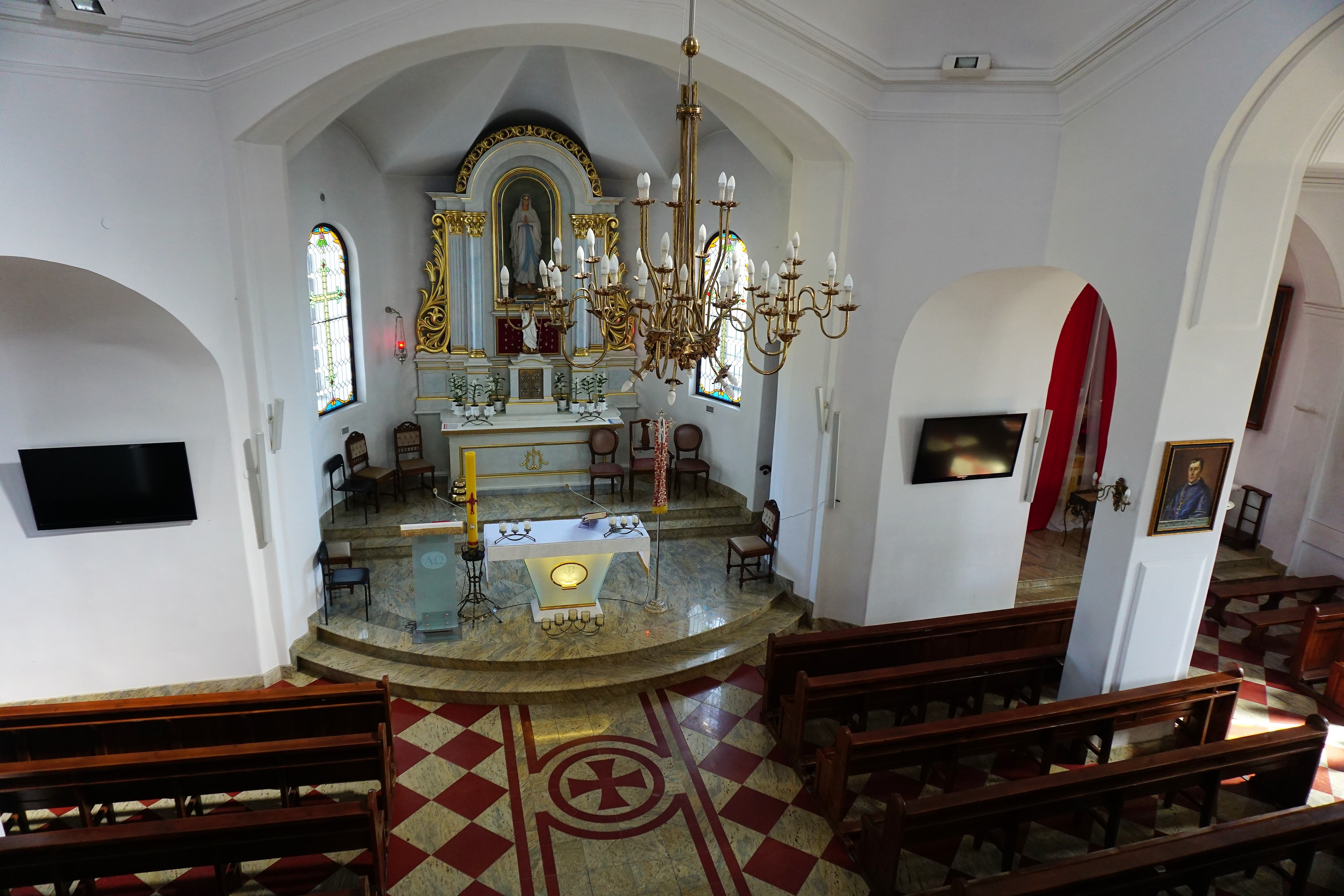 Interior of the Church of the Assumption of the Blessed Virgin Mary into Heaven, Telšiai